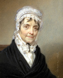 Elizabeth Schuyler Hamilton (Mrs. Alexander Hamilton, 1757-1854), 1825 Henry Inman (1801-1846) Watercolor on Ivory New-York Historical Society, Gift of Mrs. Alexander Hamilton